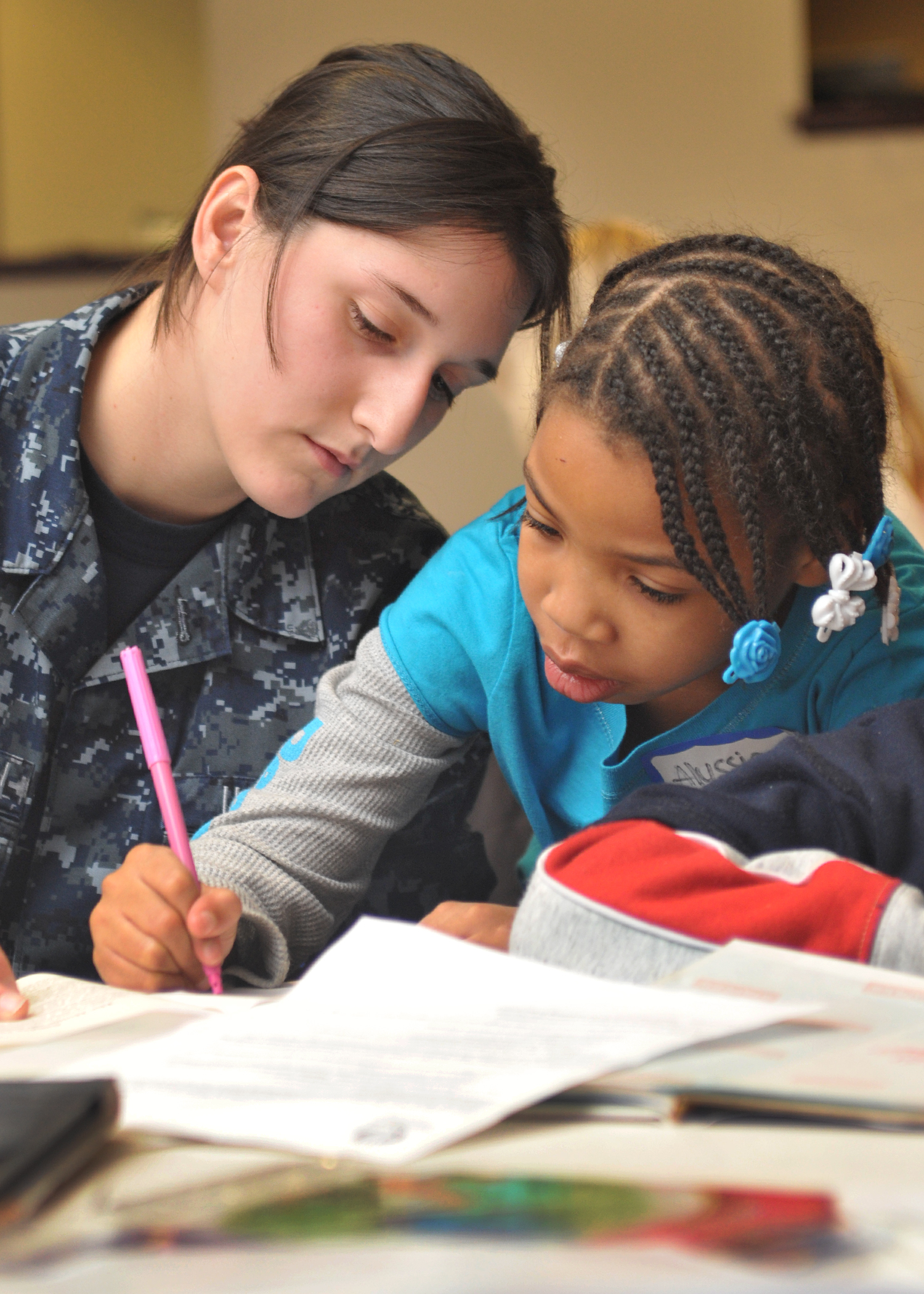 NORFOLK (Jan. 17, 2011) Airman Ashley Henderson, assigned to the aircraft carrier USS Theodore Roosevelt (CVN 71), writes notes of encouragement in books with first-grader Isabella Wyatt. Sailors assigned to Theodore Roosevelt volunteered as mentors in the Volunteer Hampton Roads 2011 Martin Luther King, Jr. Day of Service. Theodore Roosevelt is undergoing a multi-year refueling complex overhaul at Northrop Grumman Newport News Shipbuilding.